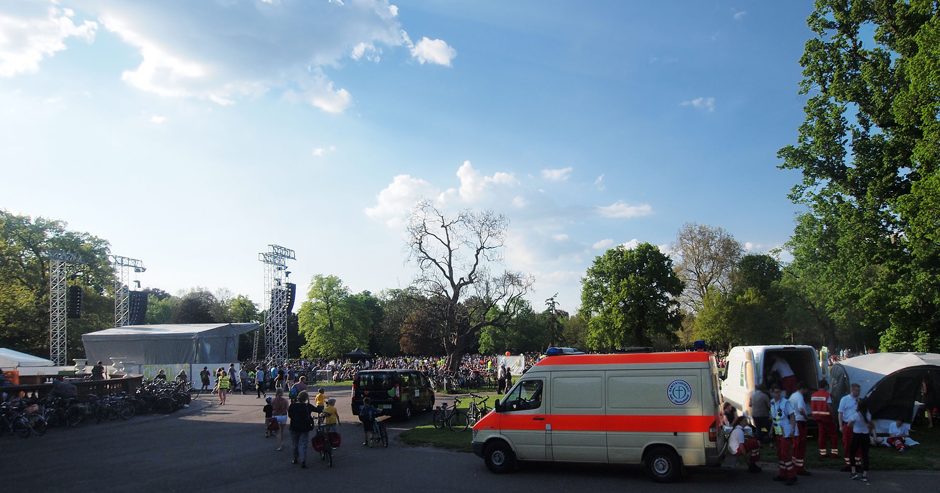 Christian Youth Festival in the Karlsruhe Palace garden